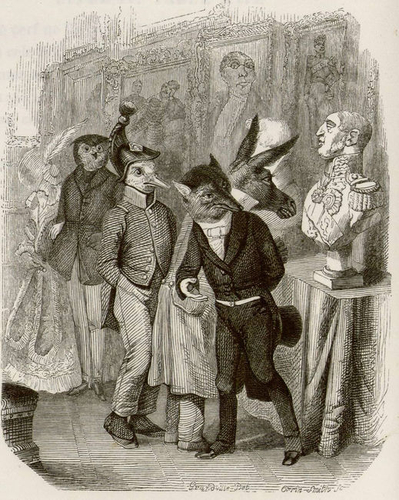 The woodcut by J.J.Granville illustrating the fable of the fox and the bust, from his volume Les Fables de La Fontaine (Paris, 1838)